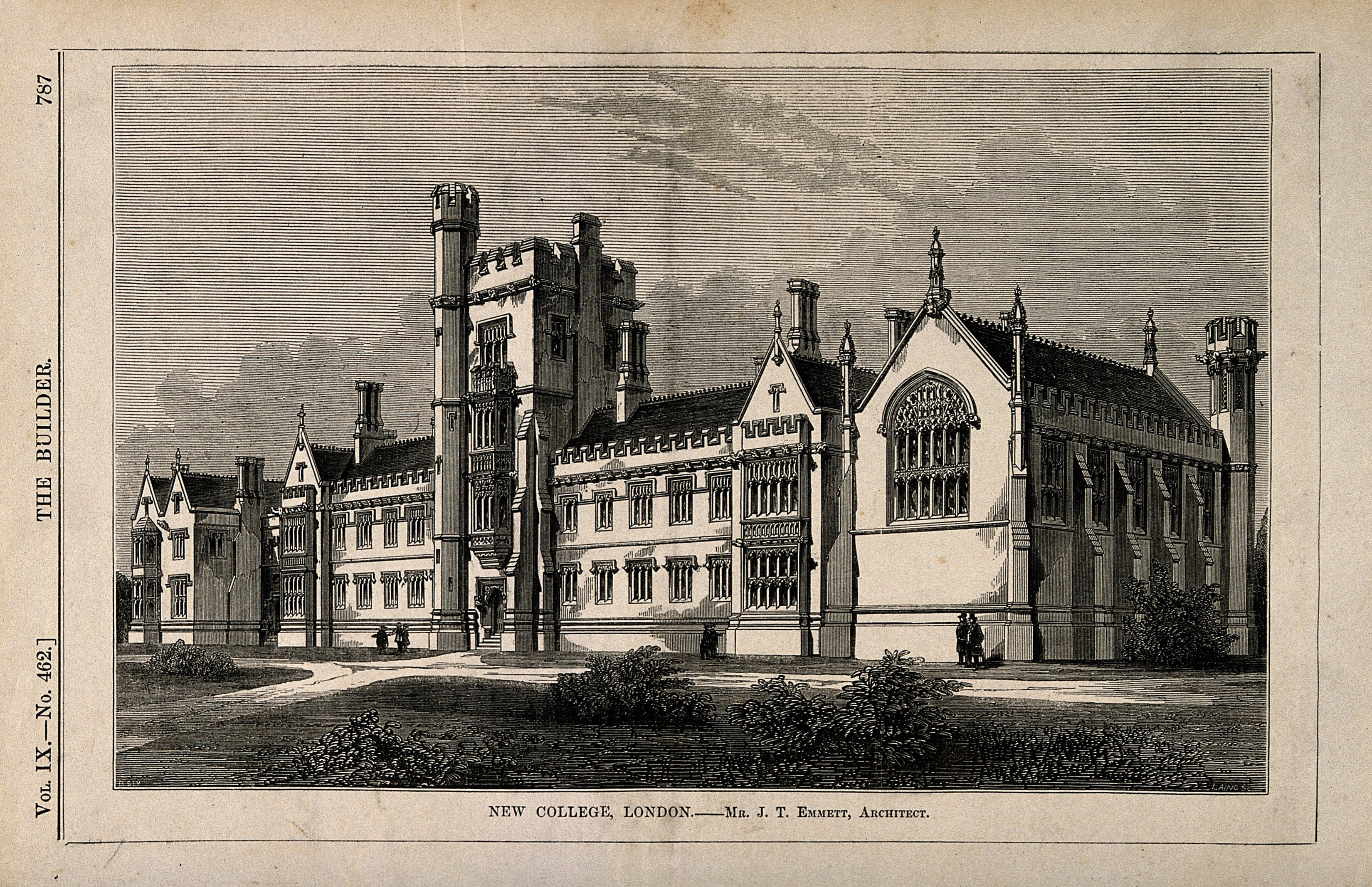 New College, St John's Wood, London. Wood engraving by C.D. Laing after B. Sly, 1851. Iconographic Collections Keywords: Charles D. Laing; New College (London, England); Benjamin Sly; John Thomas Emmett